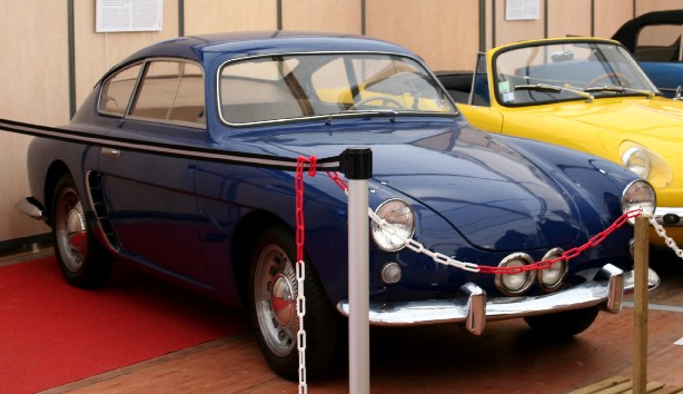 The Marquis - Alpine Prototype